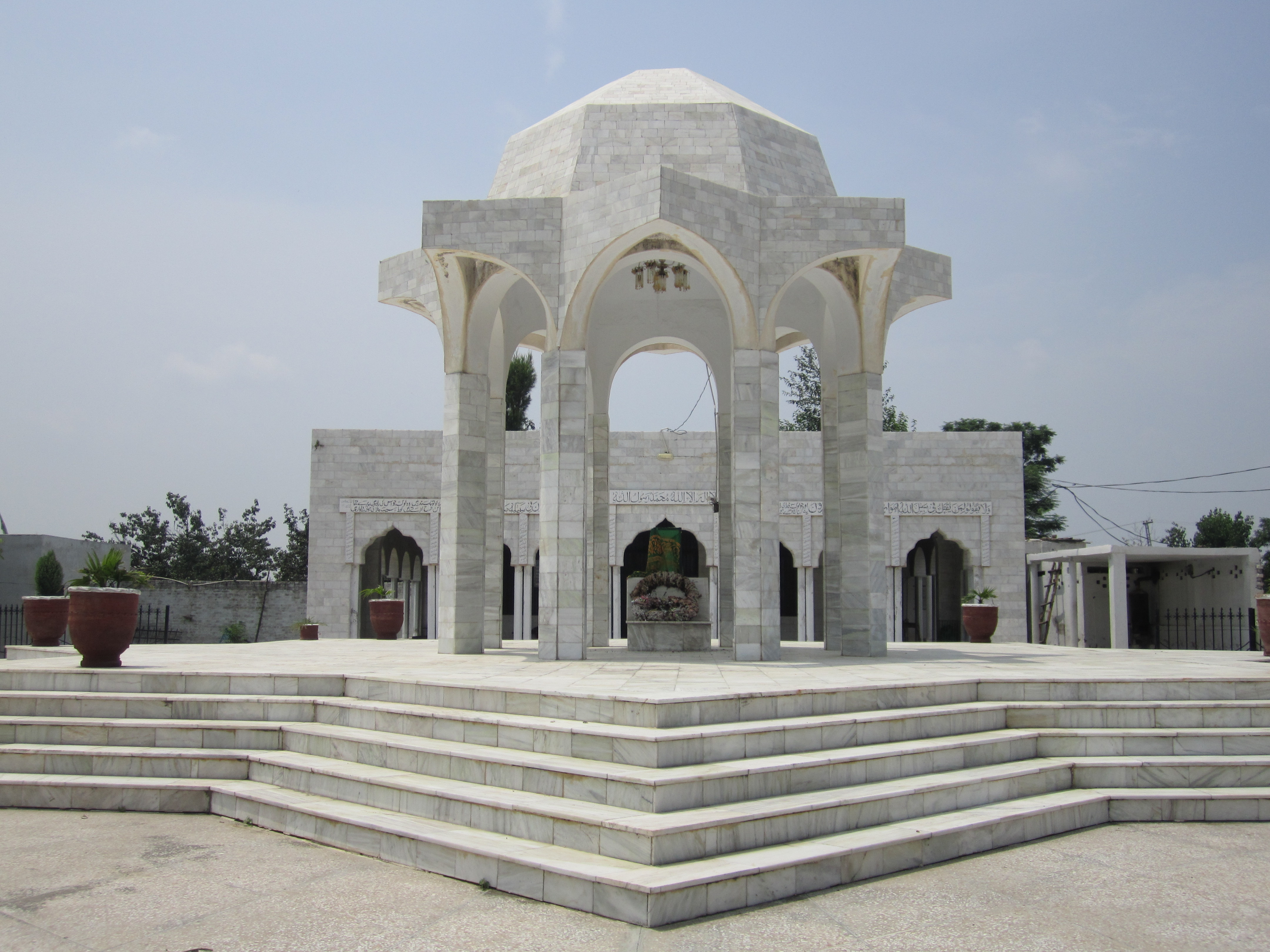 The monument at Sanghori (native village of Captain Raja Muhammad Sarwar Bhatti Shaheed Nishan e Haider) astride GT Road near Mandra.